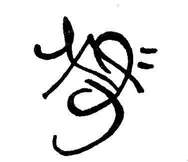 Scan aus Classified Signaturs of Artists This signature is believed to be ineligible for copyright and therefore in the public domain because it falls below the required level of originality for copyright protection both in the United States and in the source country (if different). In this case, the source country (e.g. the country of nationality of the signatory) is believed to be United States of America. Note that this tag cannot be used on all signatures, as not all signatures are copyright-free. See Commons:When to use the PD-signature tag for an explanation of when the tag may be used.